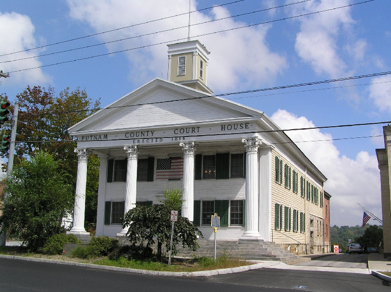 I took this photograph of the Putnam County Courthouse in Carmel, New York.